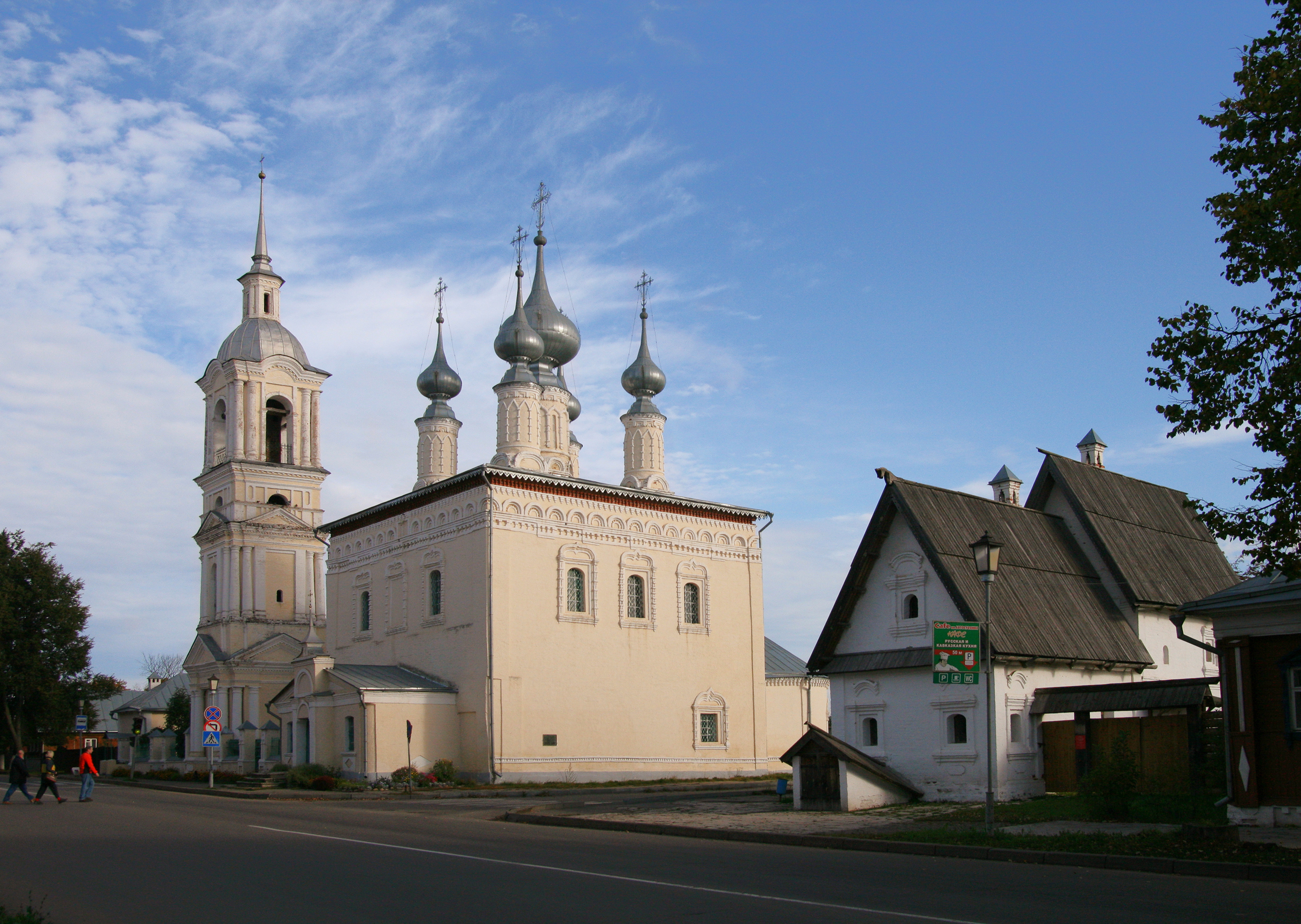 Church of the Theotokos of Smolensk, Suzdal, 1696-1707